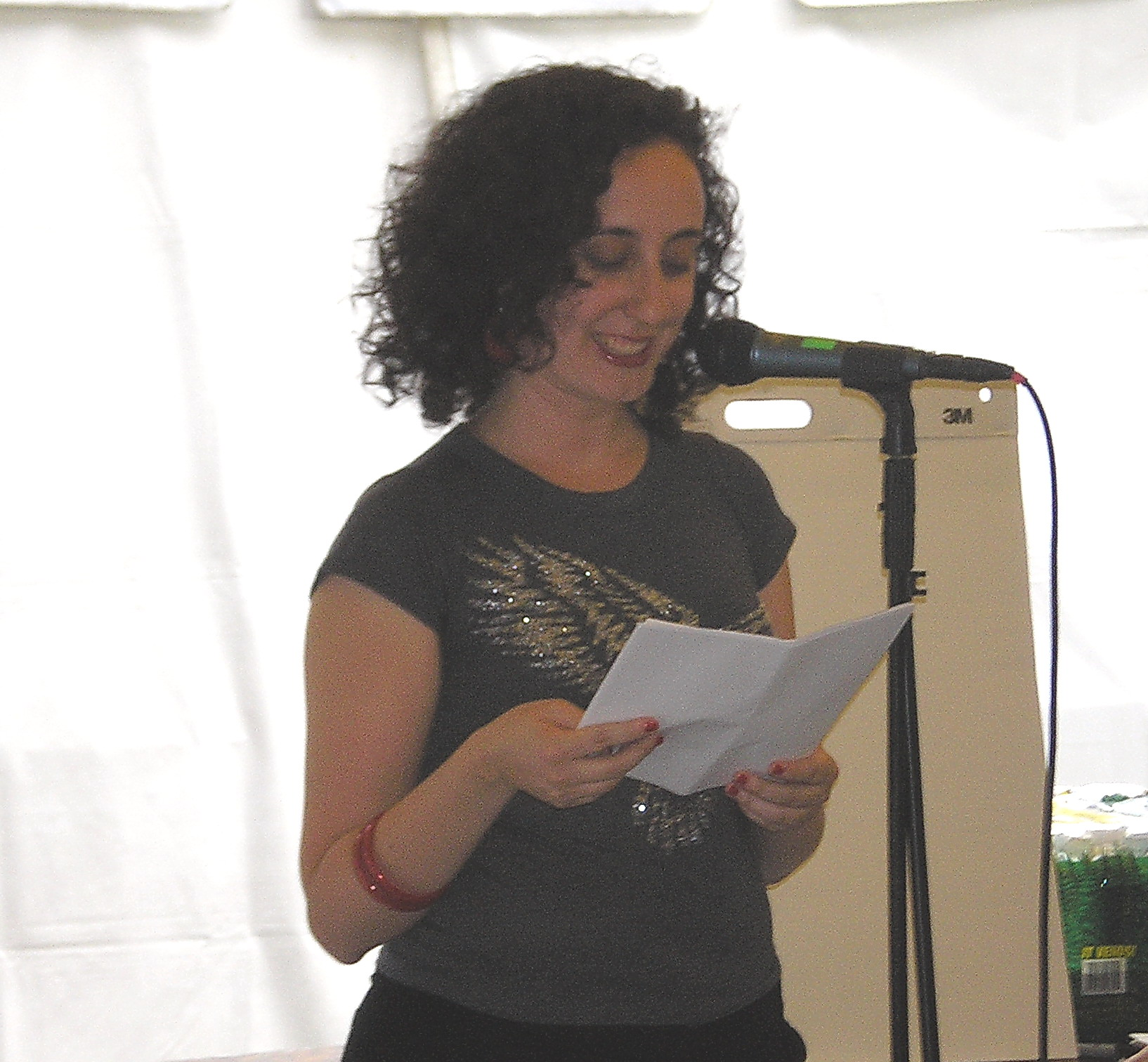 Aimee Friedman, Brooklyn, New York.